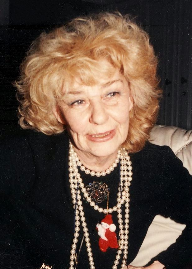 Swedish Public Relations agent Chris Platin, as released by image creator Lars Jacob ProdPlace: Karlavägen, Stockholm, Sweden